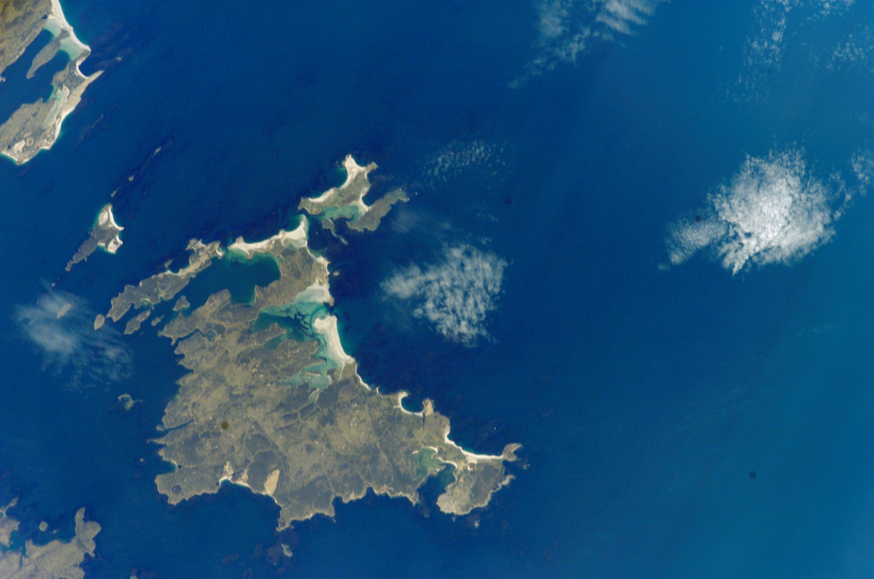 Satellite image of Lively Island in the Falkland Islands